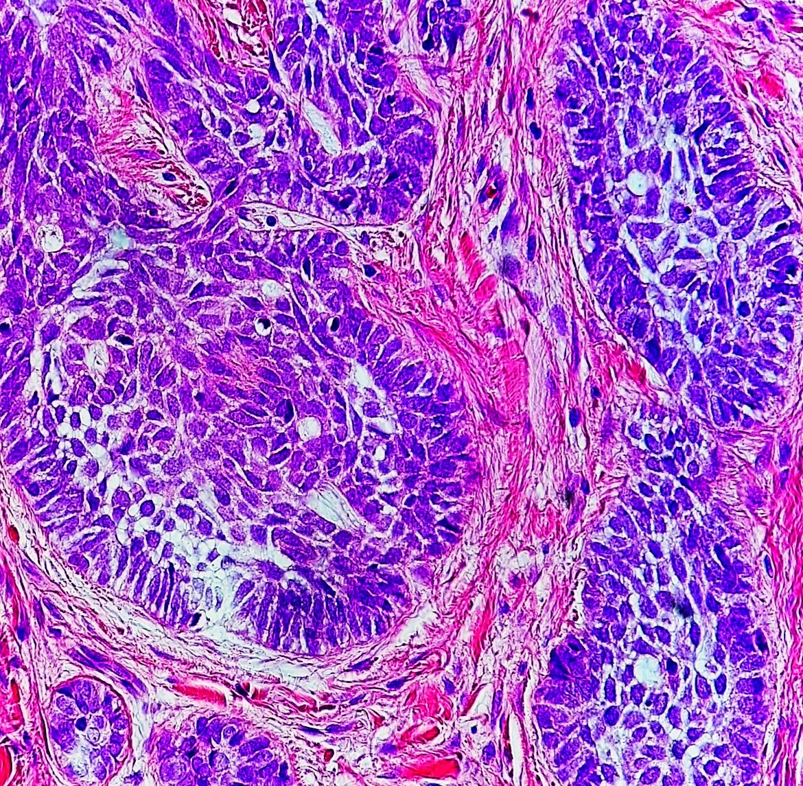 High-magnification micrograph of a moderately aggressive basal-cell carcinoma. H&E stain, showing cancerous epithelioid cells as more purple than surrounding stroma.